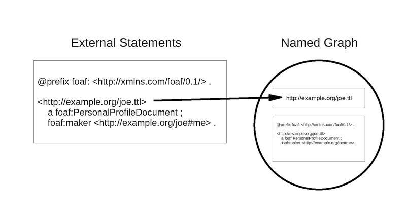 A Named graphs which is a key concept of Semantic Web architecture